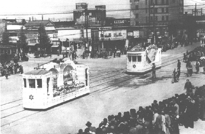 flower decorated trams for the Celebration Commemorating the Enforcement of the New Constitution," May, 1947